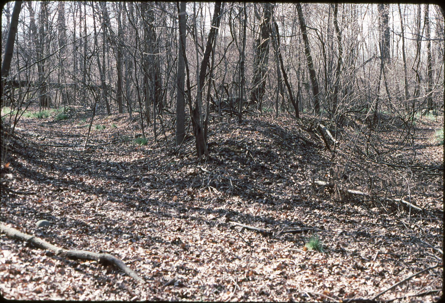 Peachtree Jct.